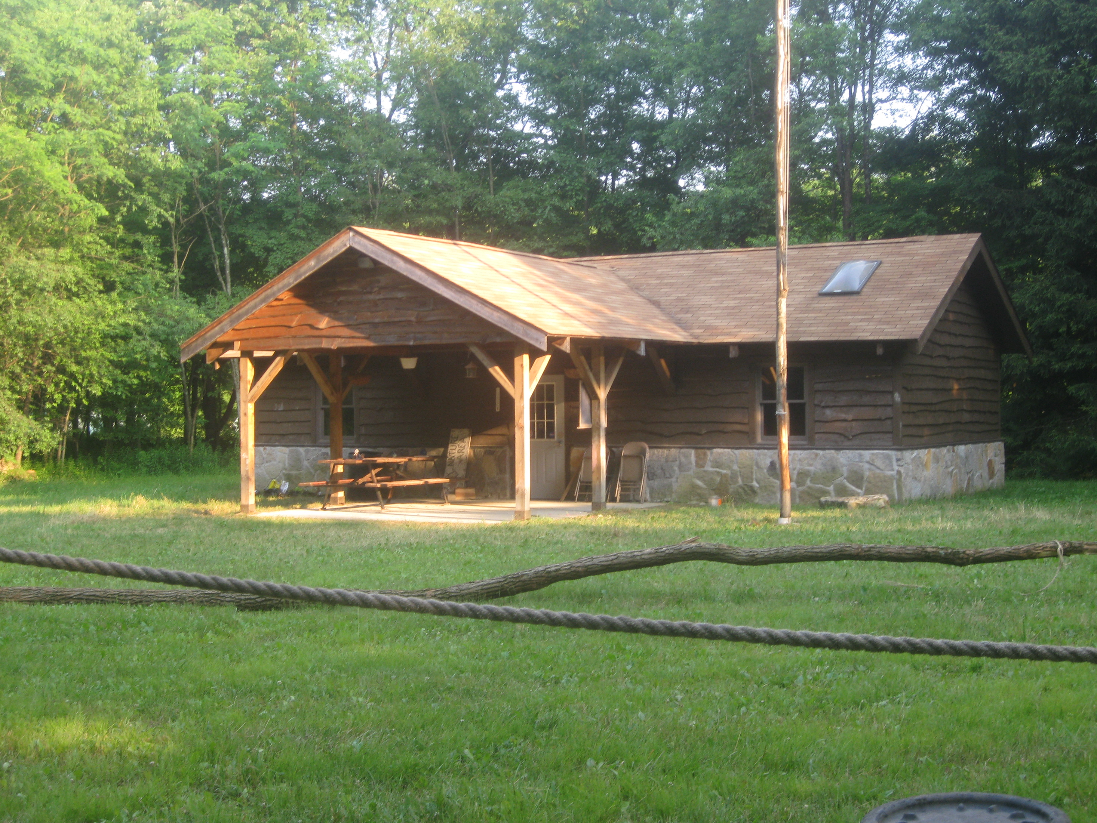 The Nature building at Camp Conestoga, a Boy Scout camp in southwest Pennsylvania. The photo is taken from the perspective of the staff tents during the 2010 camping season.